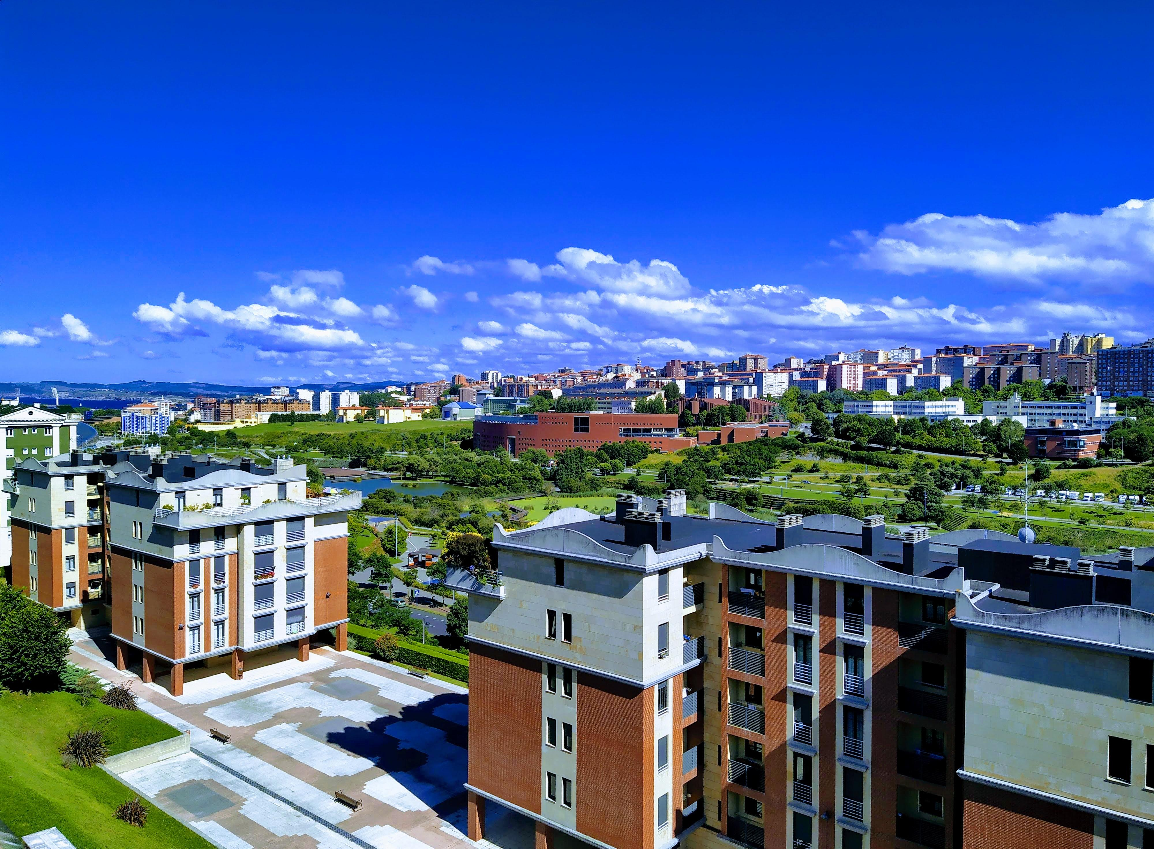 Partial view of the park la vaguada de las Llamas in Santander (Cantabria, Spain). In the background the E.T.S.I. of Industrials and Telecommunications and the Faculty of Sciences of the University of Cantabria.